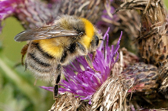 Bombus lucorum drone from Commanster, Belgian High Ardennes .